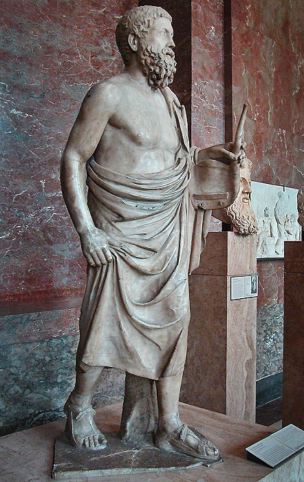 Lyre player. Marble, Roman copy from the 2nd century CE after a Greek bronze original of the 5th century BC.